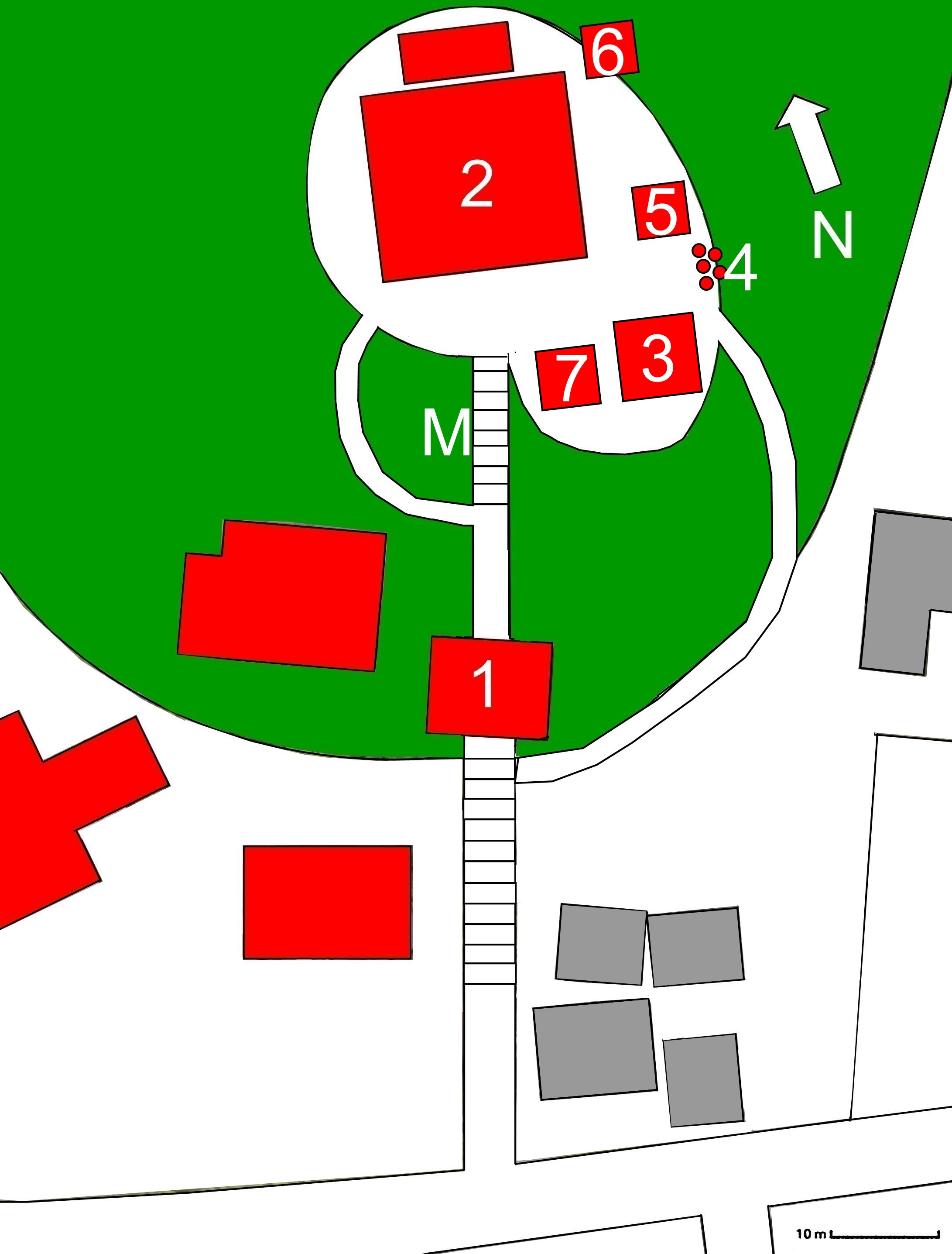 Layout of Sugimoto temple at Kamakura, Japan